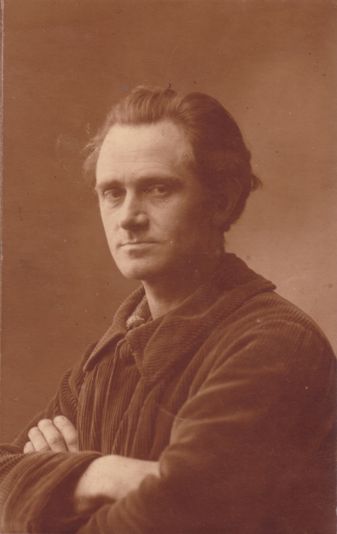 Portrait of Marinus Heijnes (Amsterdam 1888-De Kaag 1963), aged 34